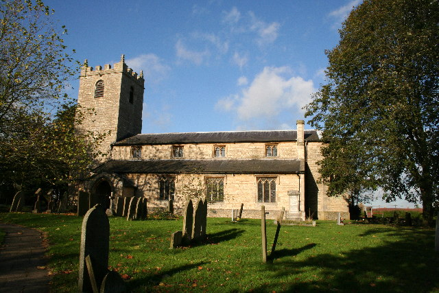 St.Mary's church, Welton, Lincs. A much rebuilt medieval church .... tower by Thomas Bell in 1768, church by E.J.Willson in 1823-4, but 13th & 14th century arcades survive.